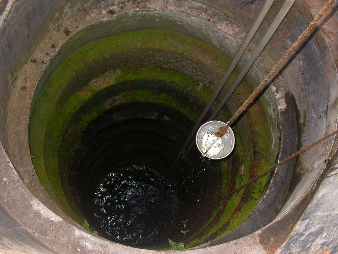 TV Manoj; Water being lifted with a bucket from a traditional well; location: Taliparamba, Kannur, Kerala, India